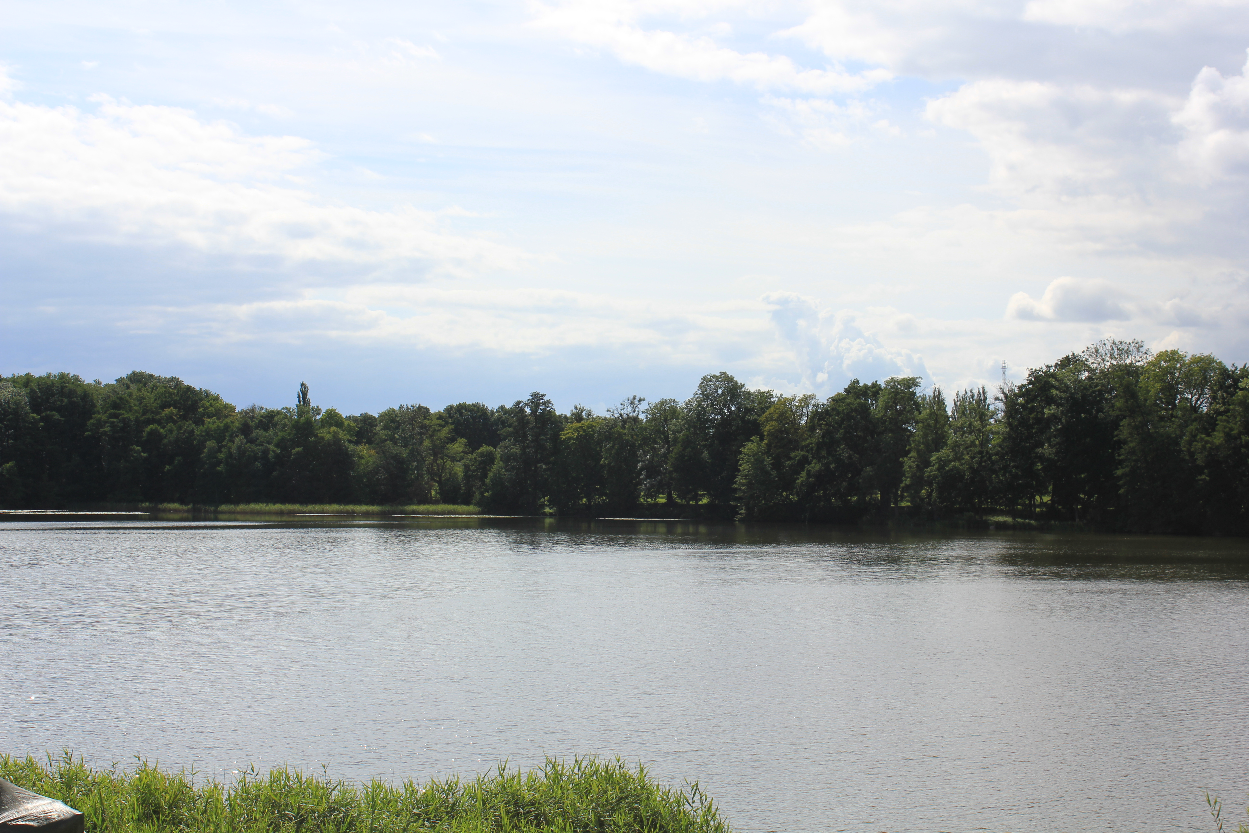 The lake Diestelower See